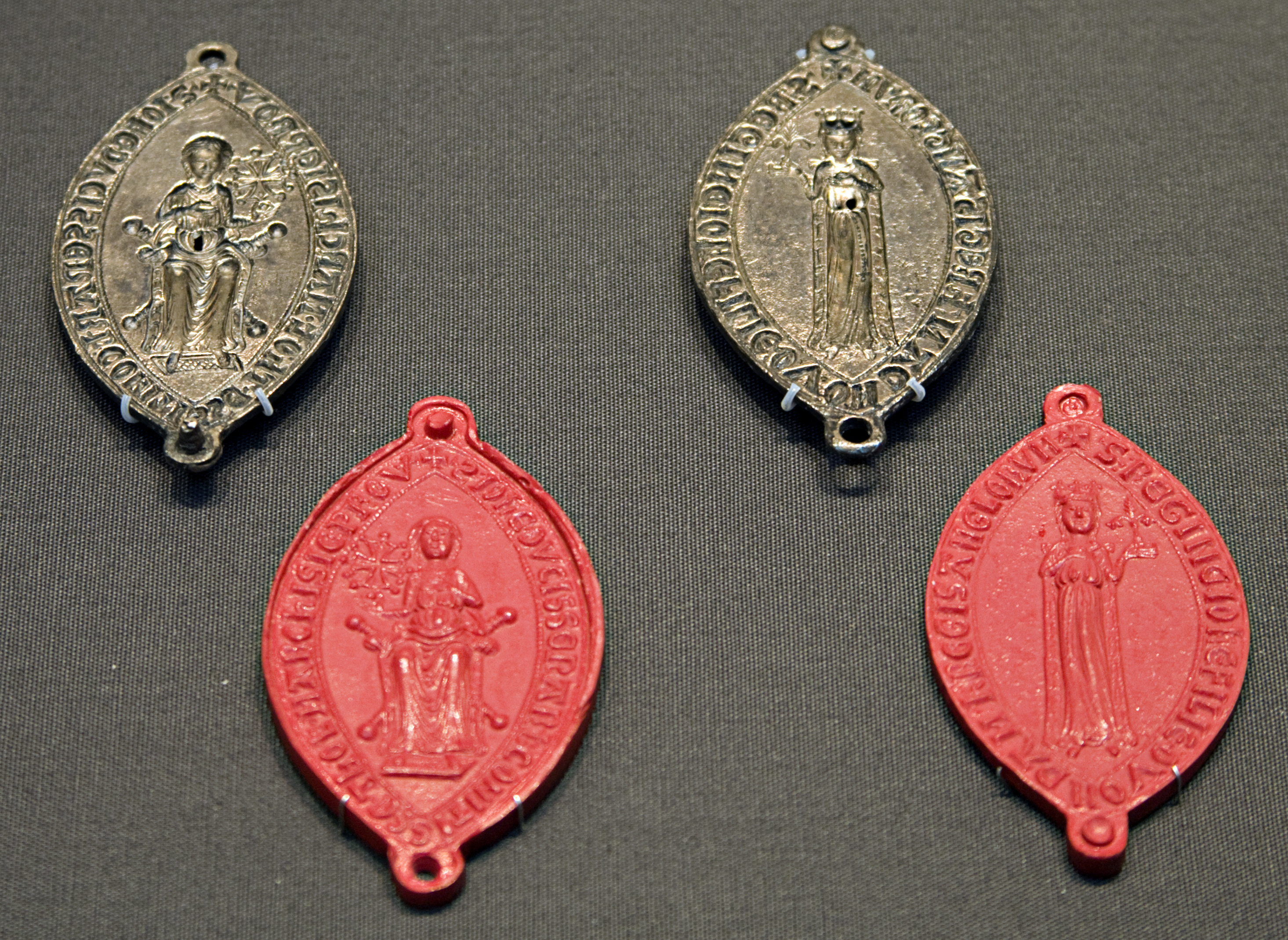 Medieval seal in the British Museum. Tag on exhibit reads: "Double seal of Joanna Plantagenet" and "About 1196-99 France Silver" See BM database entry for more details.